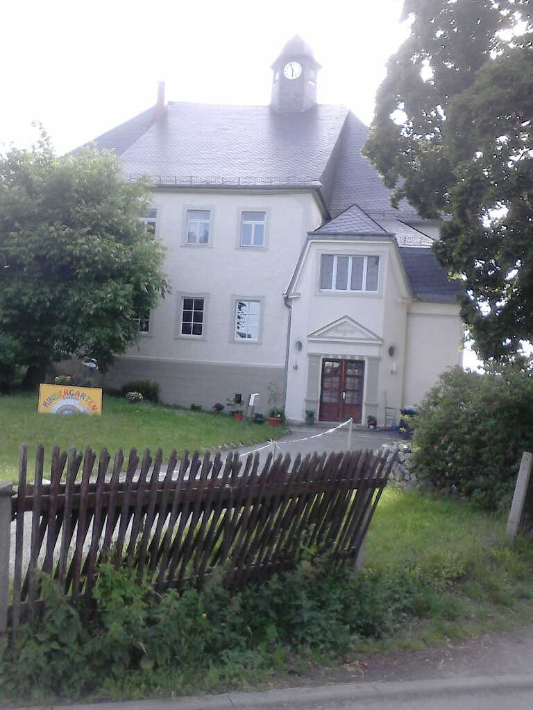 Manor House Weißendorf (Zeulenroda-Triebes)